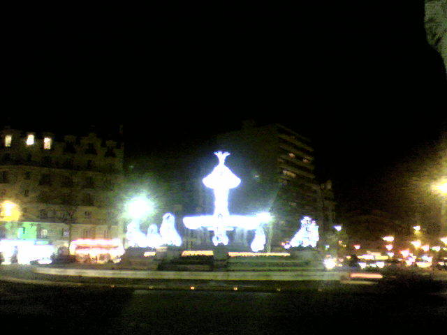 Place Felix Eboué - 12e Paris I'm the author of this work